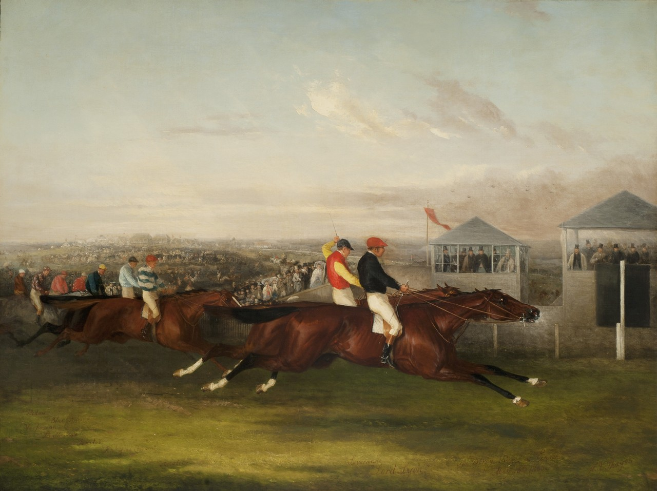 LORD LYON WINNING THE DERBY AT EPSOM, 1866